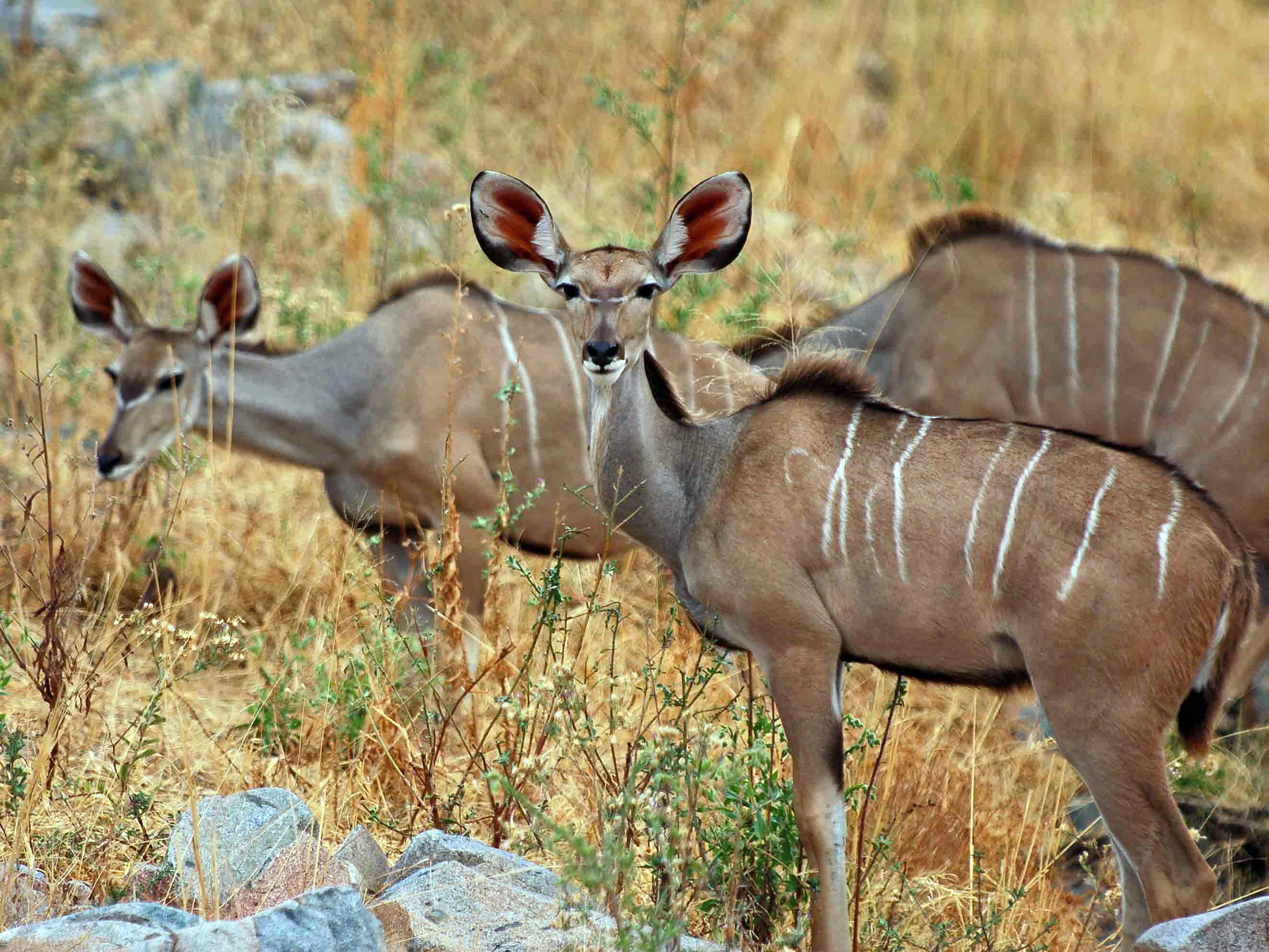 Three kudus amongst brown grass in Ruaha in Tanzania.